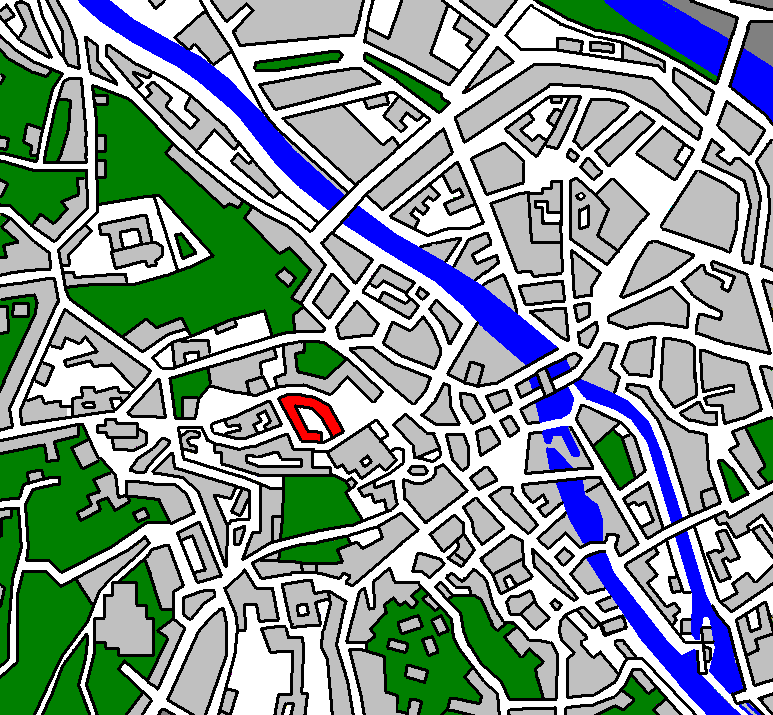 locator map in the German town of Bamberg